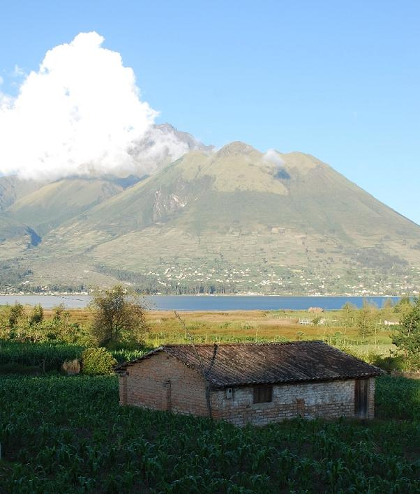 Typical Ecuadorian Landscape